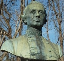 Bust of Brig. Gen. States Rights Gist by George T. Brewster (1862–1943) at Vicksburg National Military Park